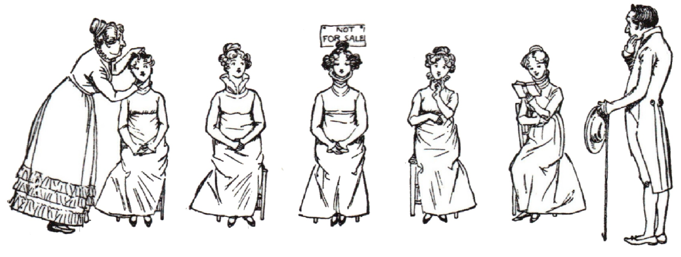 Humorous illustration for Pride and Prejudice, ch. 15: "Mr Collins meant to choose one of the daughters".